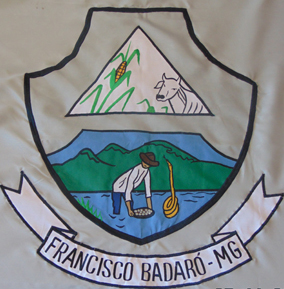 Coat of arms of the city of Francisco Badaró, Minas Gerais, Brazil.